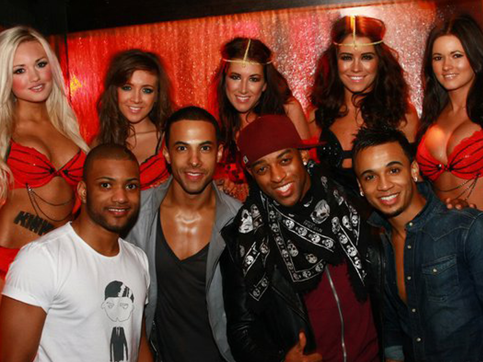 Pop band JLS pictured at Tup Tup Palace nightclub, Newcastle, UK in 2010 with Tup Tup Showgirls.